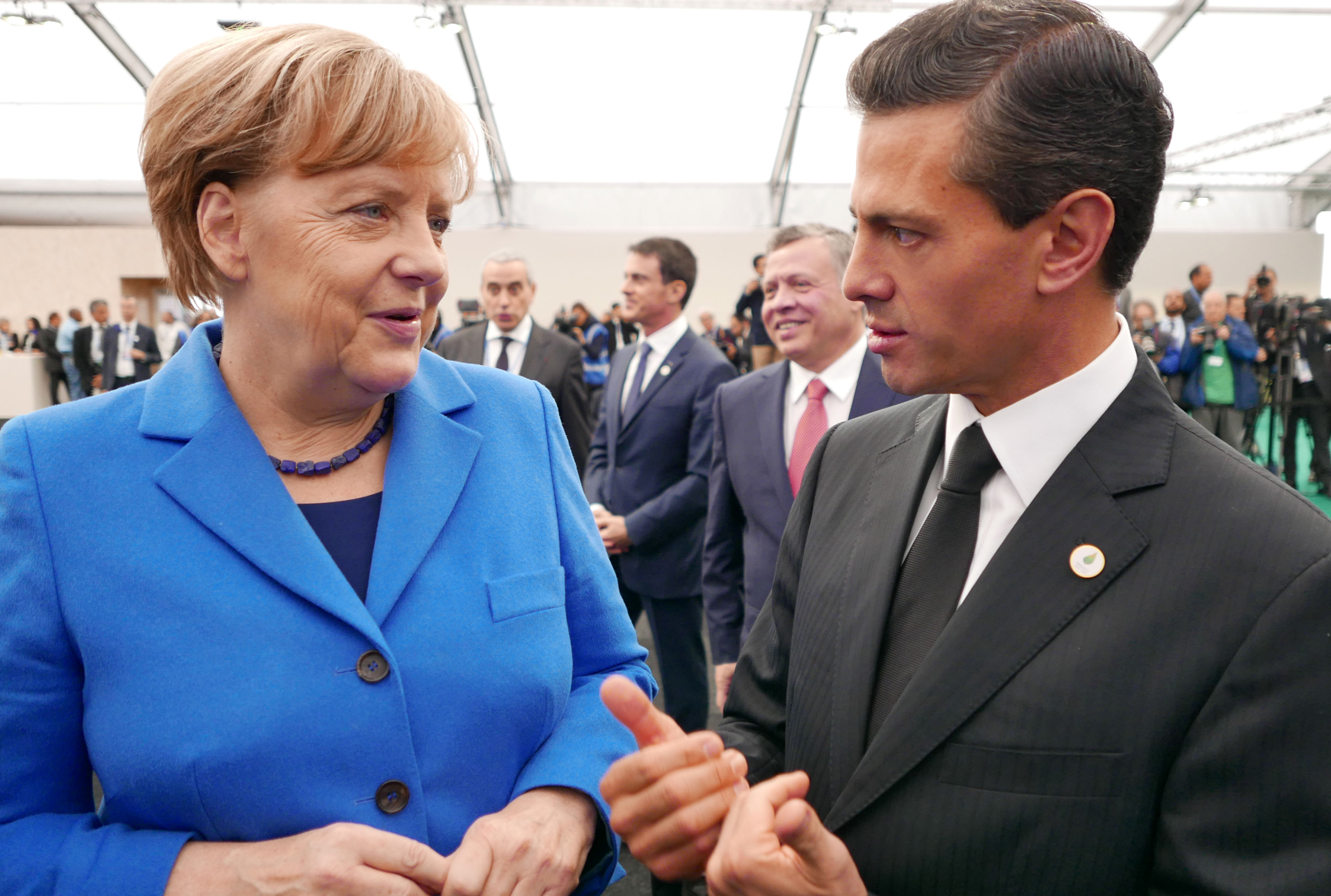 Conferencia de la ONU sobre Cambio Climático COP21